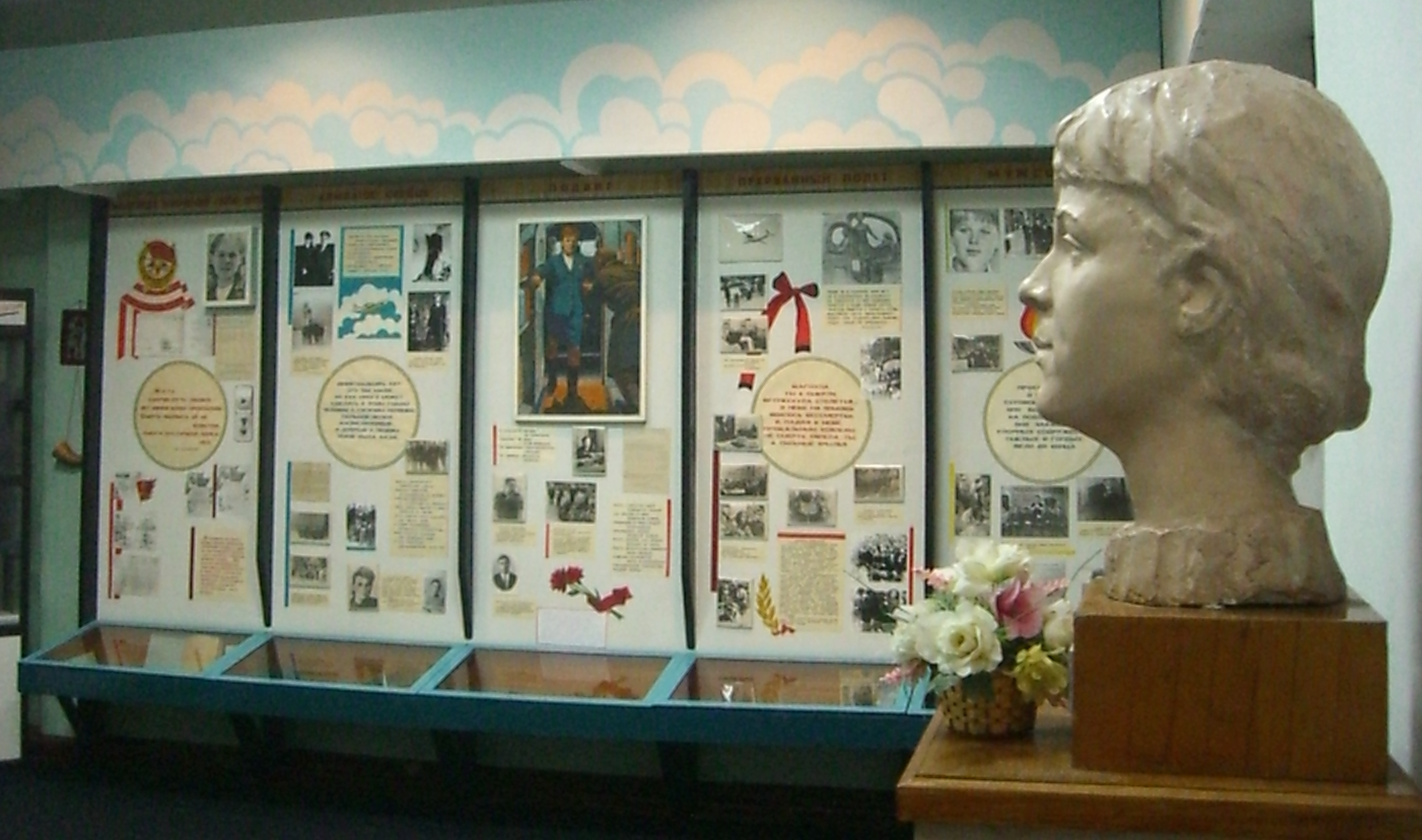 Надежда Курченко